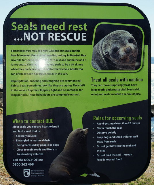 Notice about seals